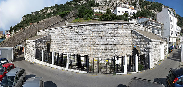 Panoramic View of Flat Bastion Magazine and Flat Bastion Road. The gate in the Charles V Wall is to the left. Gardiner's Road and removal of a section of the southeast face of the Flat Bastion are to the right. This section of the road is straight. The distortion is due to the panoramic nature of the image.